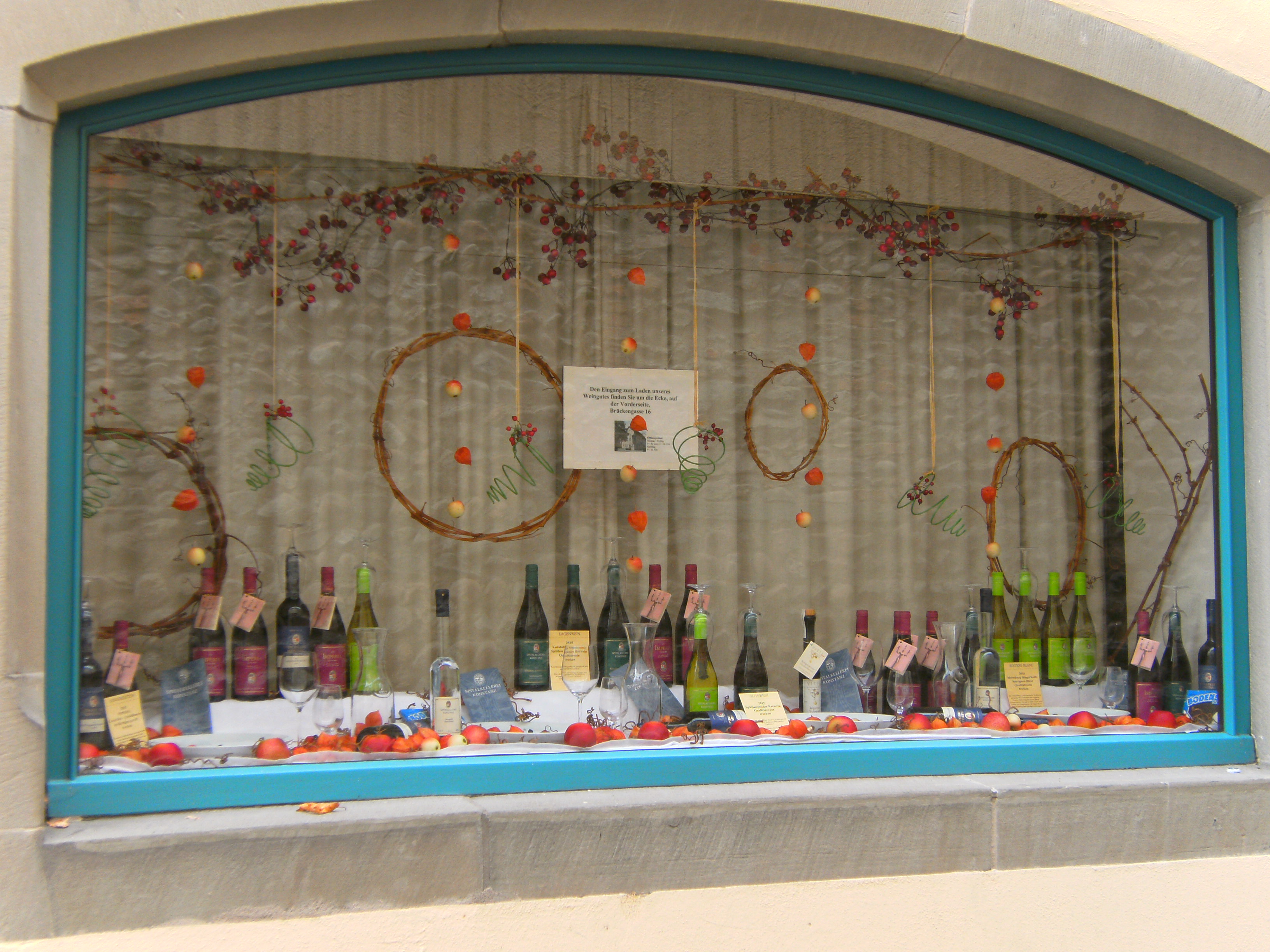 Konstanz, Germany, Brückengasse: Buildings of Spitalkellerei Konstanz (wine cellars). Wines in show window.